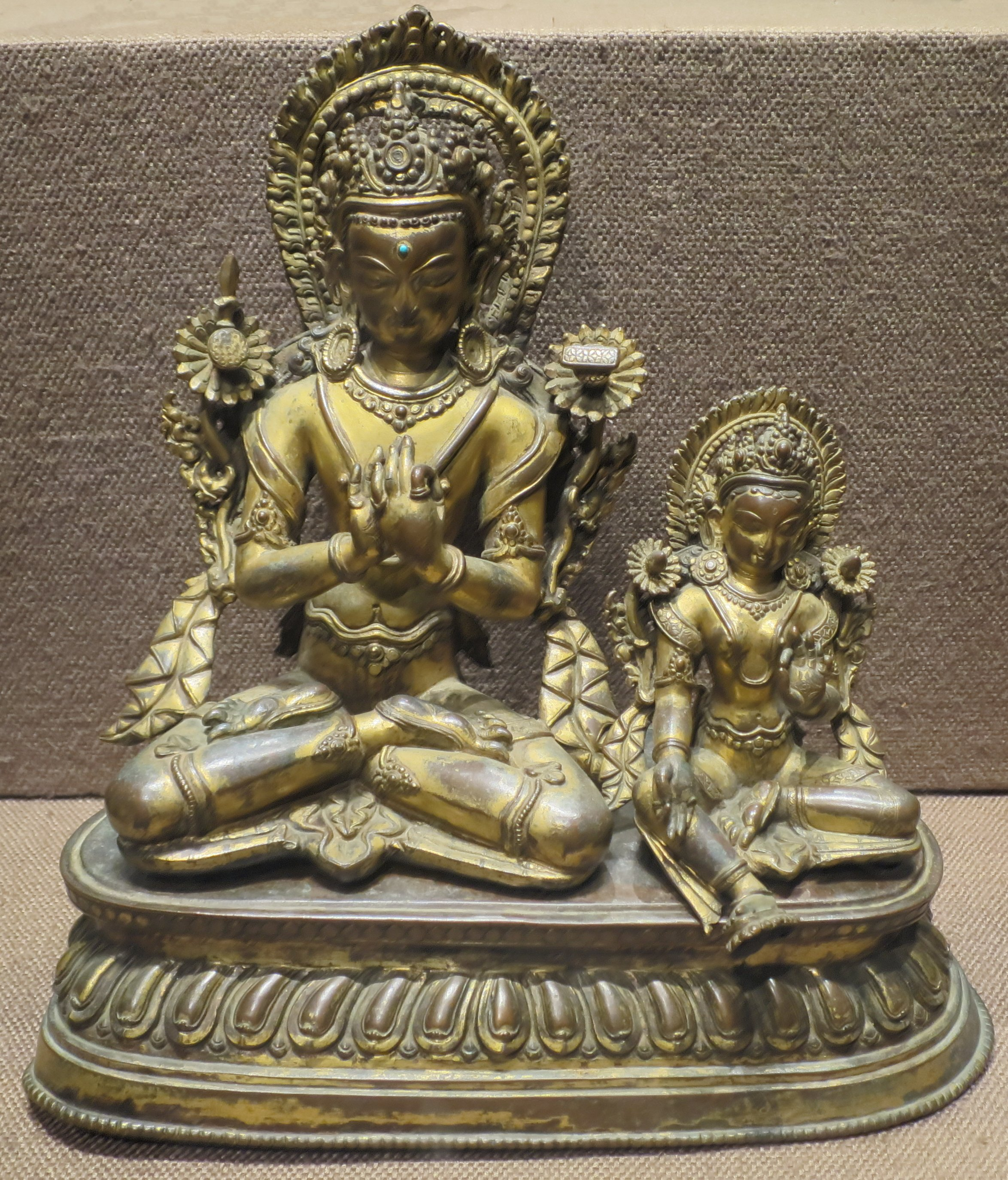 Bodhisattva Manjusri and Prajnaparamita from Nepal, c. 1575, gilt bronze, Norton Simon Museum